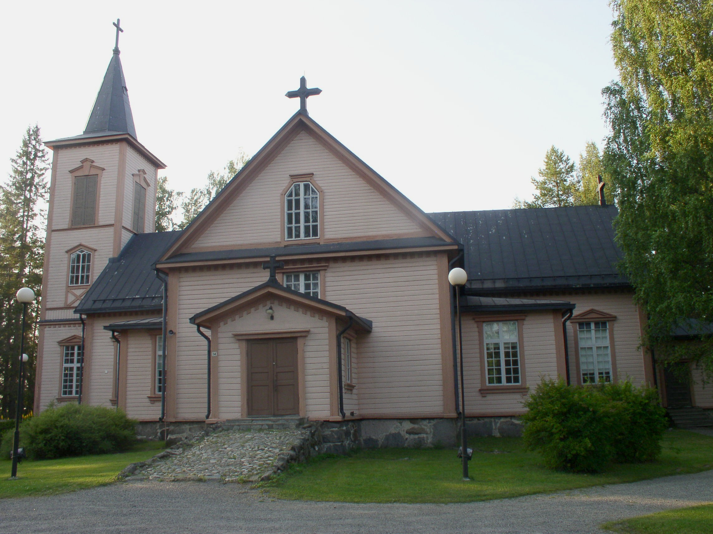 Anttola Church in Mikkeli, Finland. The church was built in Juva in 1729, and moved to its present location in 1870.